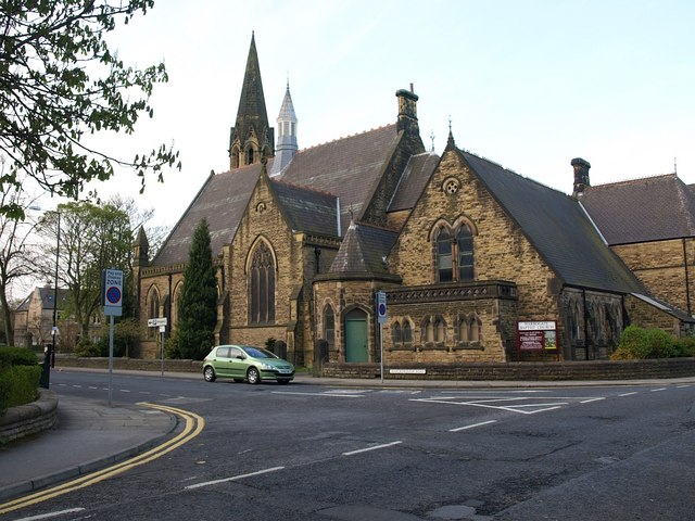 Harrogate Baptist Church. The Victorian church, which dates from about 1883, is on Marlborough Road, between North Park Road (foreground) and Victoria Avenue. See also 1262190.